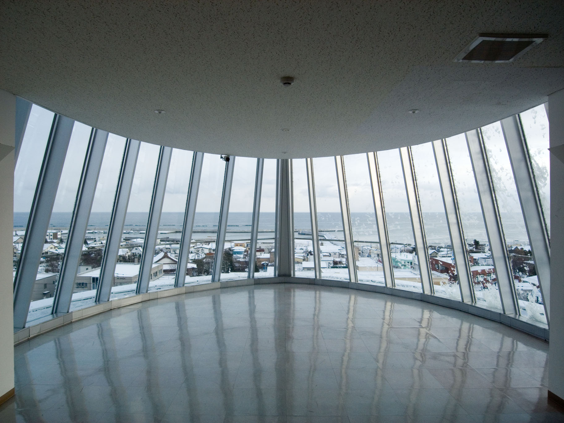 View from roadside station Omu, Omu, Hokkaido, Japan